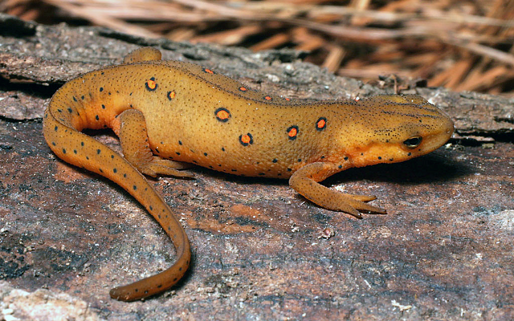 Eastern newt (red eft), Notophthalmus viridescens. Location: Durham County, North Carolina, United States.